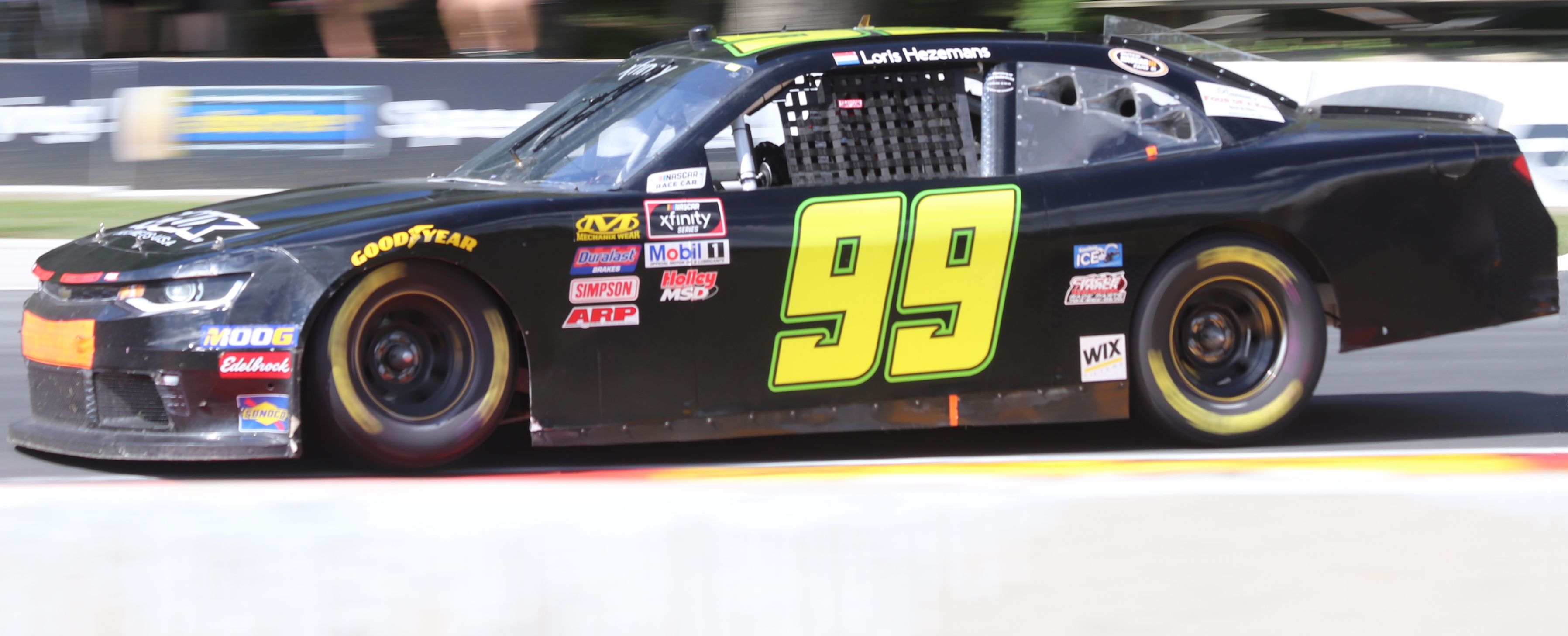 The #99 Chevrolet Camaro of Loris Hezemans at the NASCAR CTECH 180.